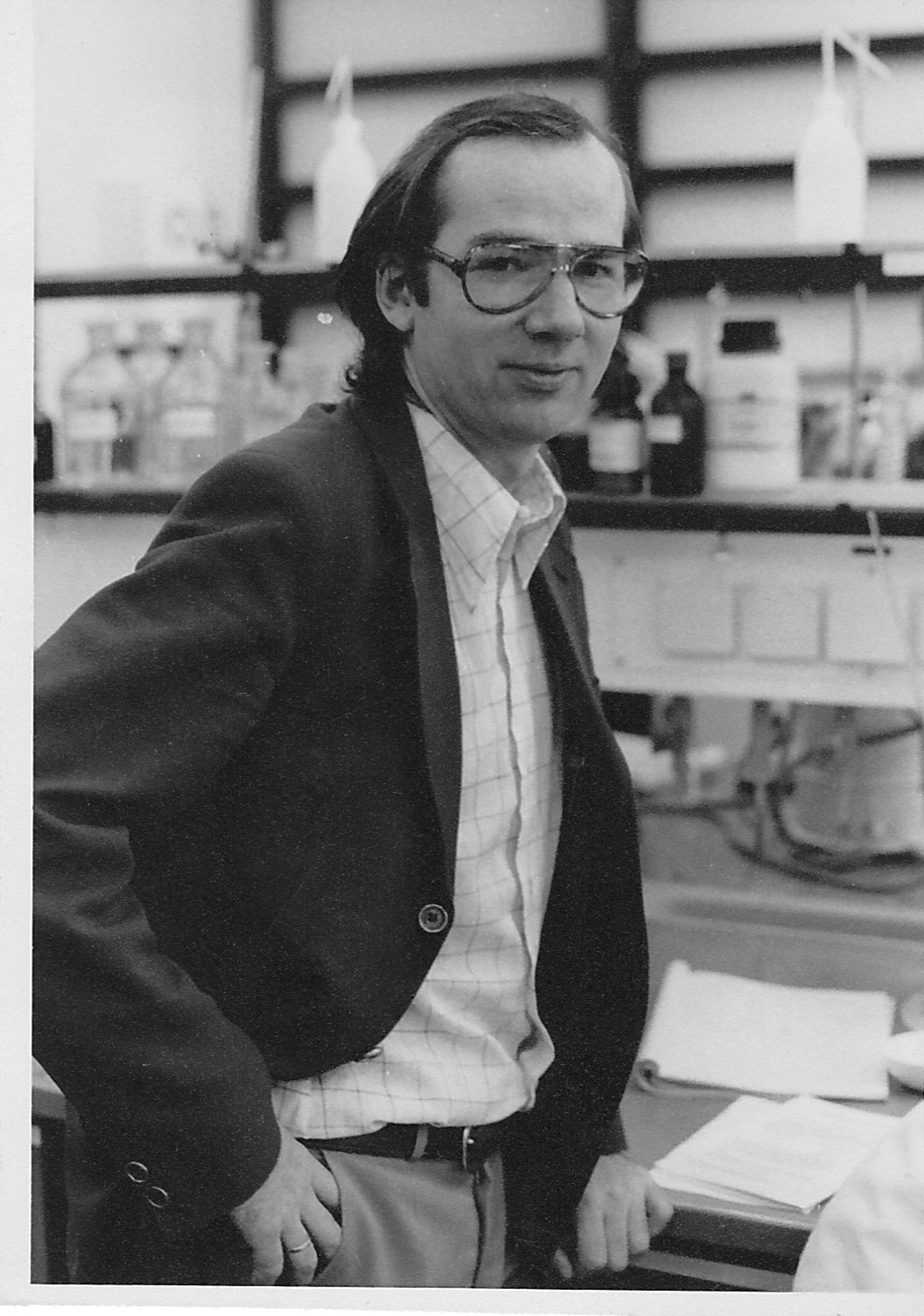 Peter Köll (Professor of Organic Chemistry at University of Oldenburg/Germany)